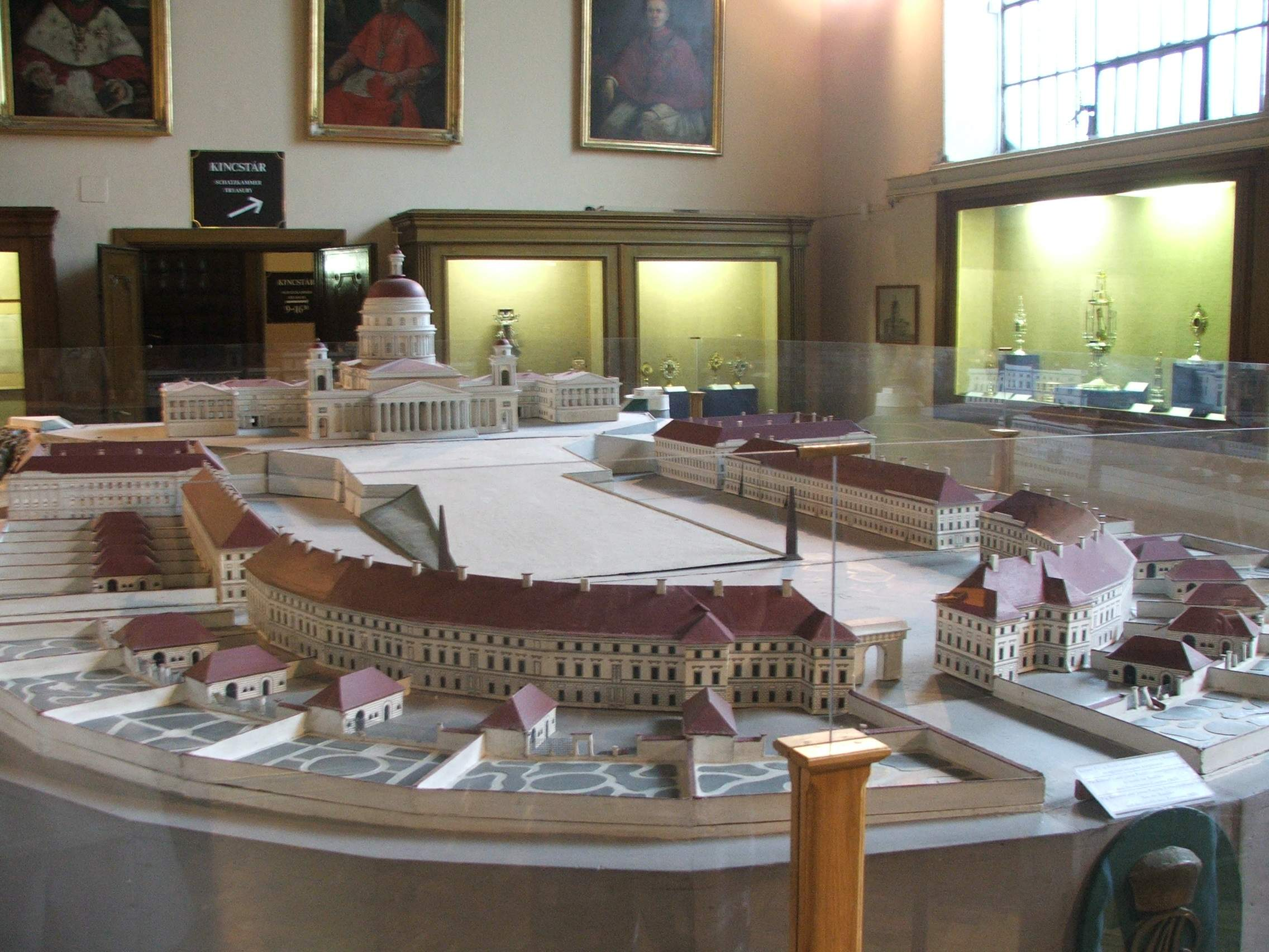 The original, 1821 plans for the St Stephen square, the basilica and the entire Castle hill. This is on display at the entrance of cathedral's treasury.